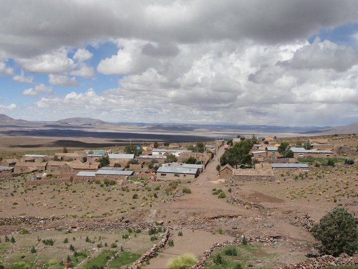 una imagenes de hace unos meses